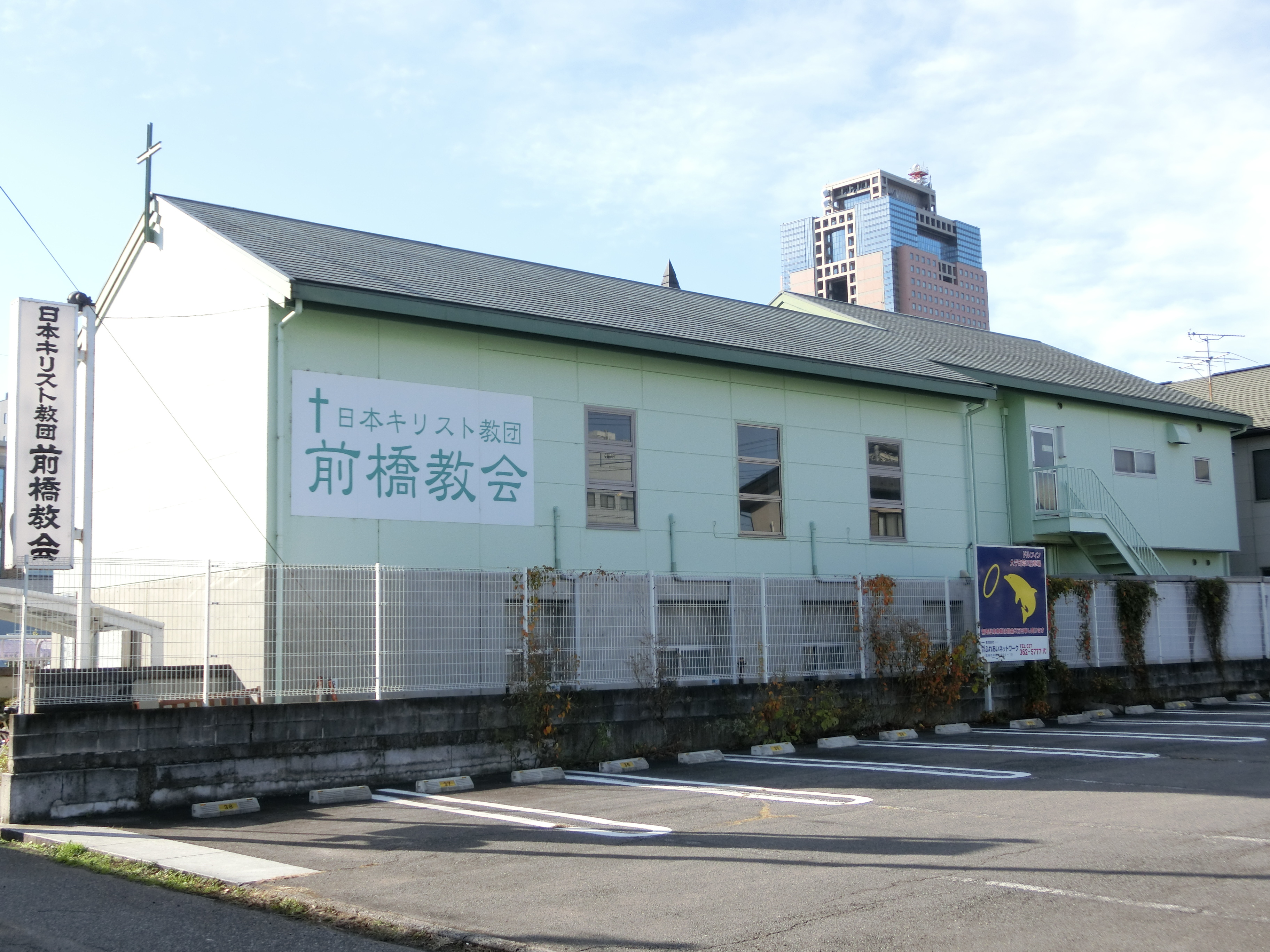 Maebashi Church